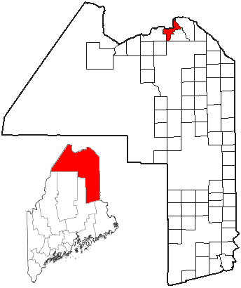 Adapted from U.S. Census Bureau maps (American FactFinder) and Wikipedia's ME county maps by Bumm13